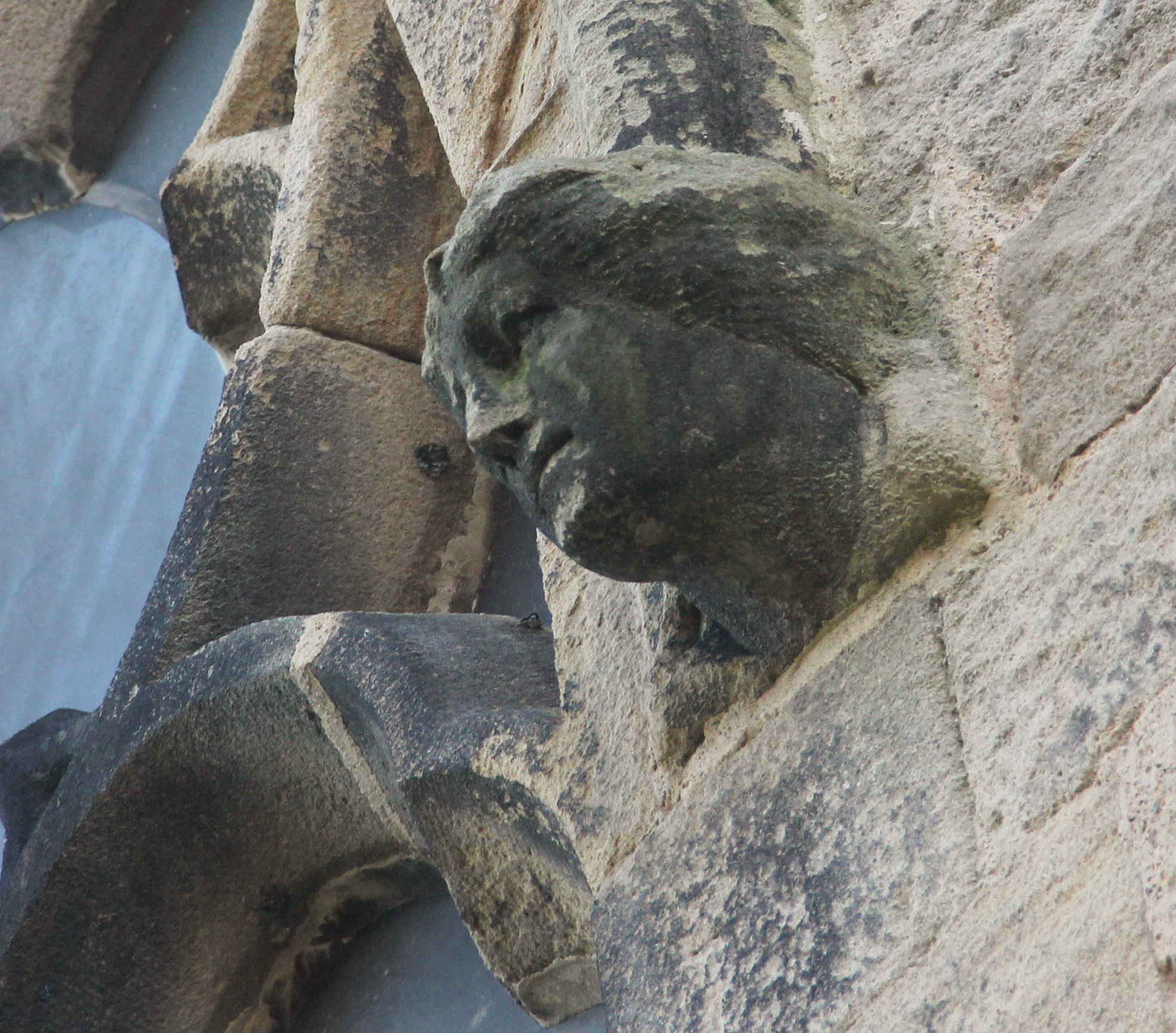 Weathered carving high on the wall of Church of St Thomas the Apostle, Anglican parish church at Killinghall, North Yorkshire, England. Building designed by William Swinden Barber in 1879. Carving by Charles Mawer.